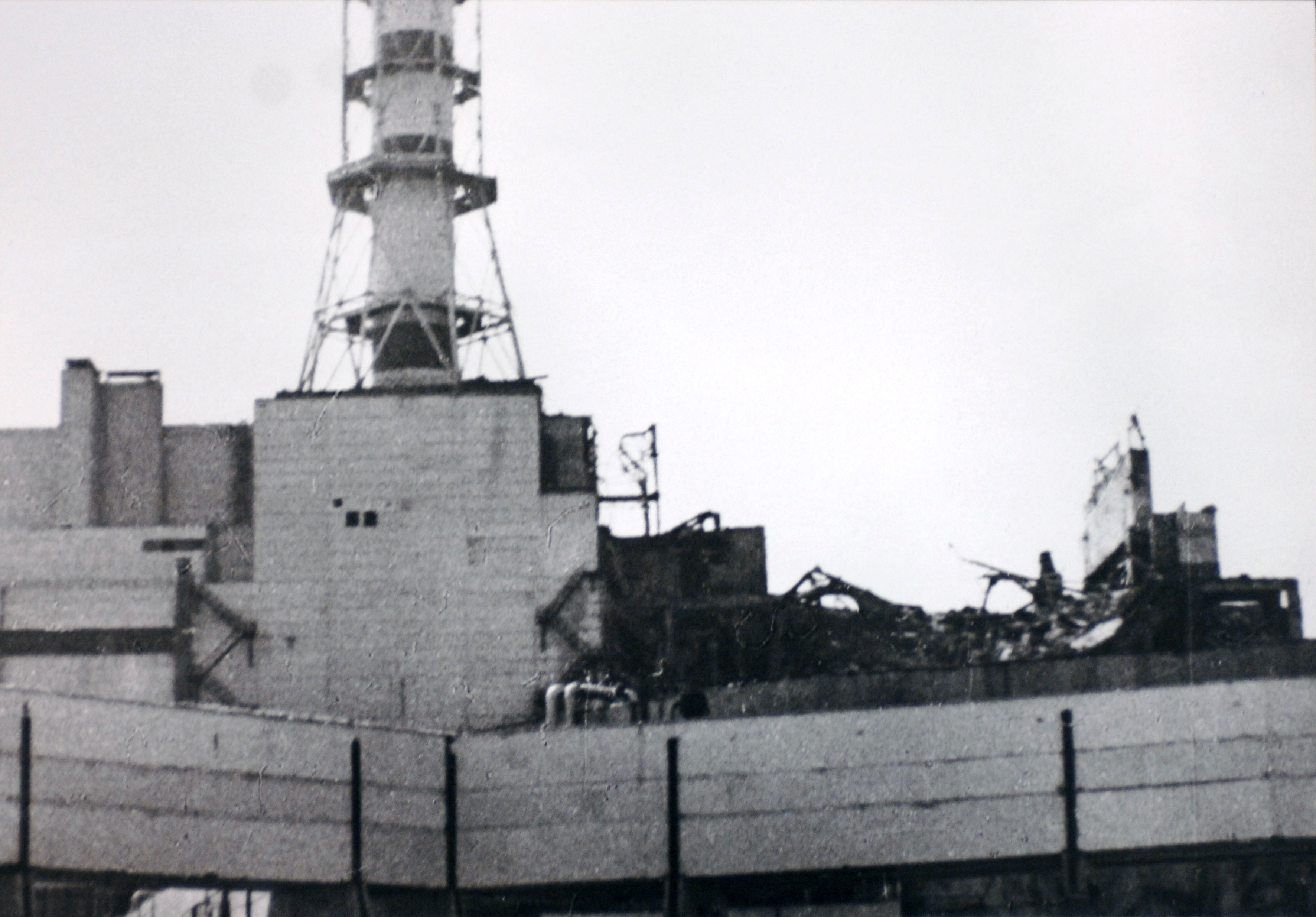 Historical collections of the Chernobyl accident from the Ukrainian Society for Friendship and Cultural Relations with Foreign Countries (USFCRFC). Such was the condition of the power unit No. 4 when the first clean-up task force workers saw it. Copyright: IAEA Imagebank Photo Credit: USFCRFC